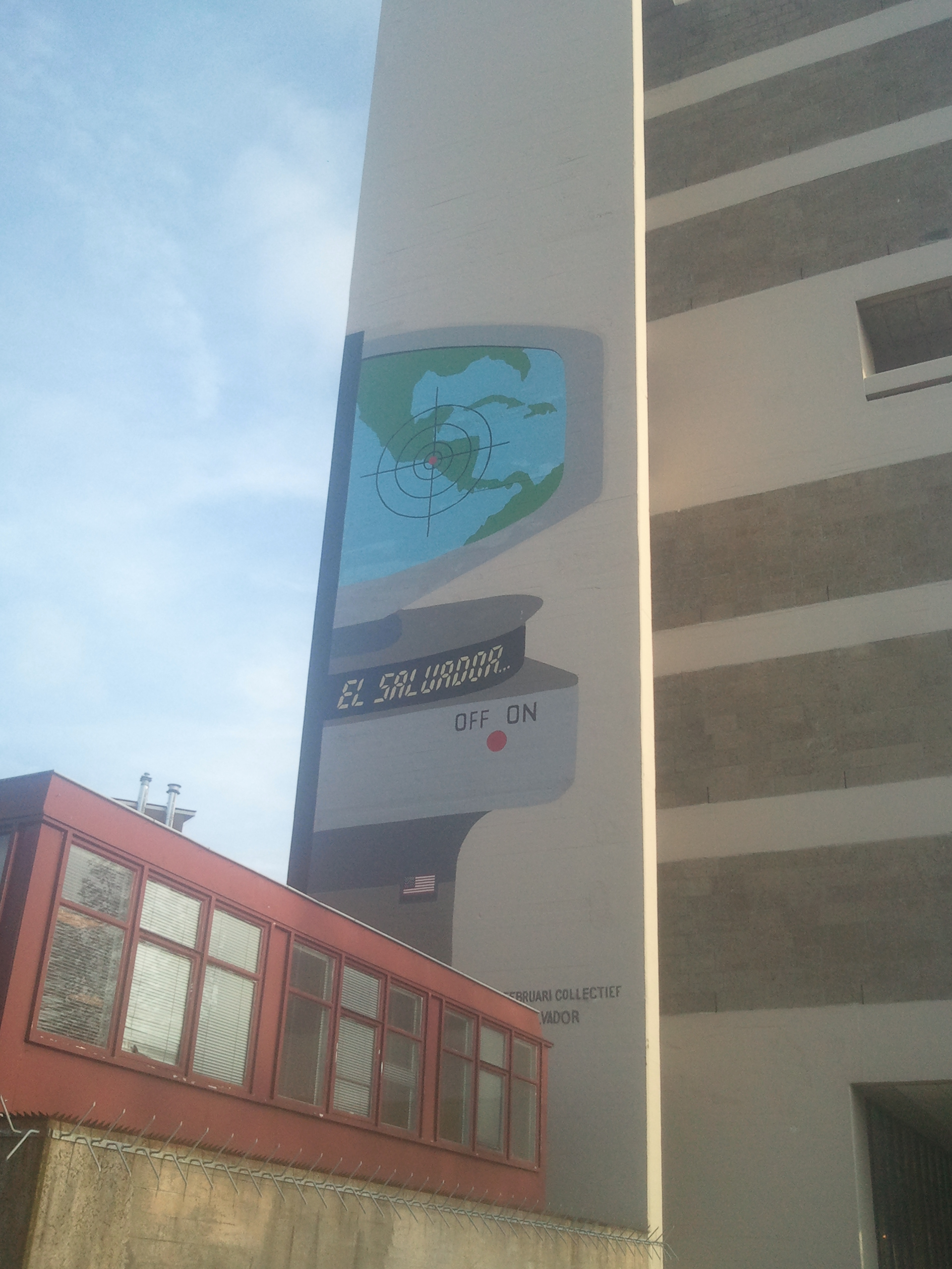 El Salvador